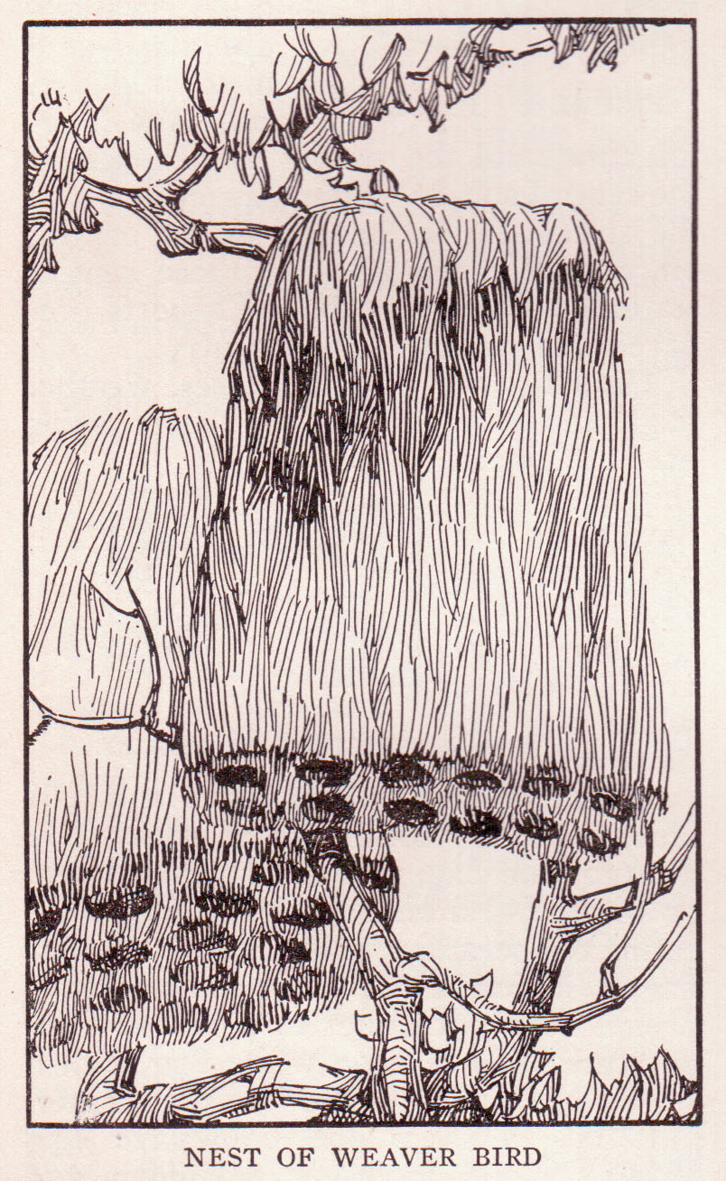 This copyright free illustration of a Weaver Bird nest is from page 3094. From the public domain book, The Home and School Reference Work by The Home and School Education Society, copyright 1917. Flickr data on 2011-08-18: Tags: 1917, birds, book, copyright free, creative commons, drawings, flickr, free License: CC BY 2.0 User: perpetualplum Sue Clark